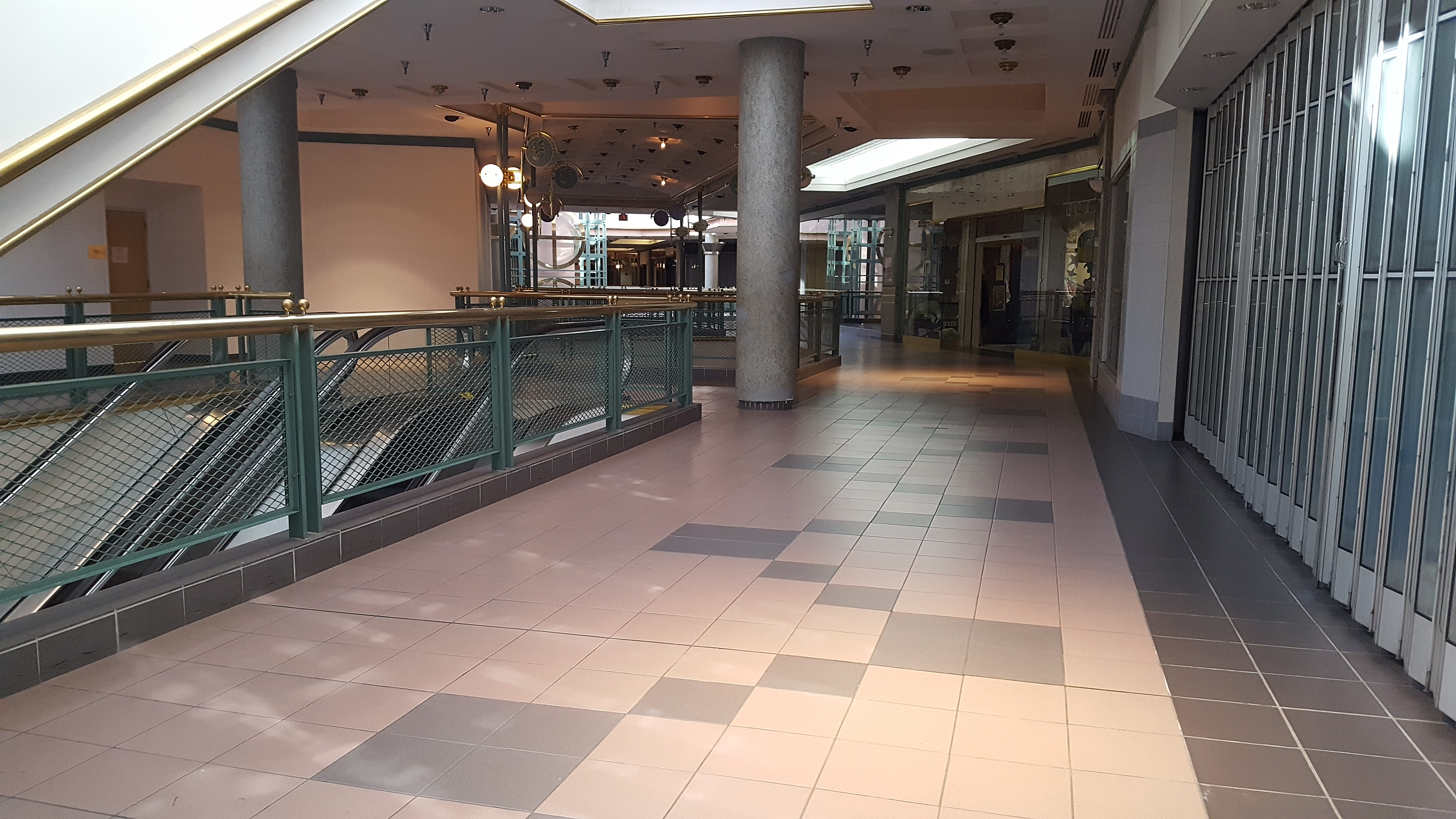 Richland FASHION Mall Columbia, SC December 2017